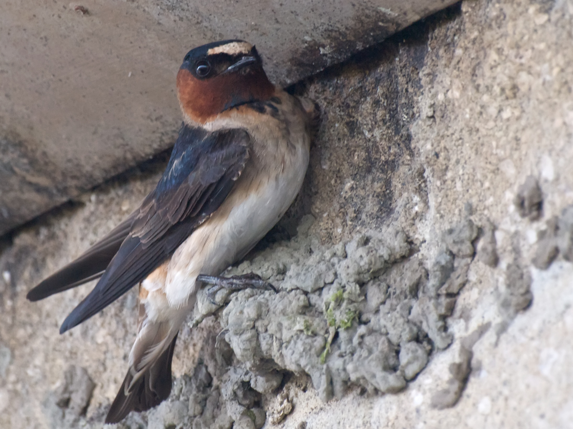 Cliff Swallow ( petrochelidon pyrrhonota) with the early makings of a nest. A number of cliff swallows were building their structures on this wall. Shot at ISO800 on my E520. Most cliff swallow nests are under eaves in less-than-ideal lighting. I'm also careful to keep my distance from nesting birds, so keeping all of that in mind, a cliff swallow in process. Blog post related to this photo.